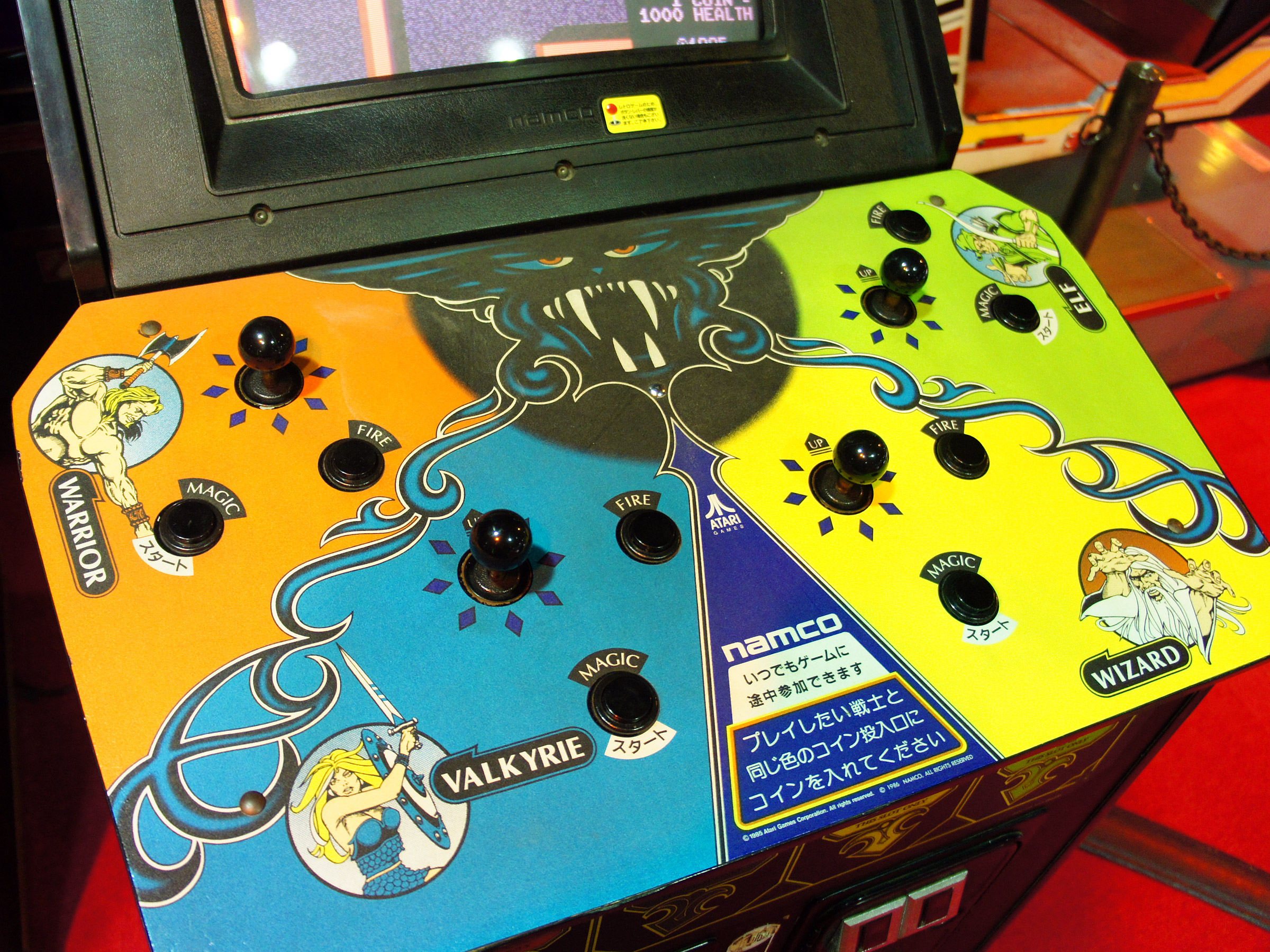 Console of ATARI's Guantlet.